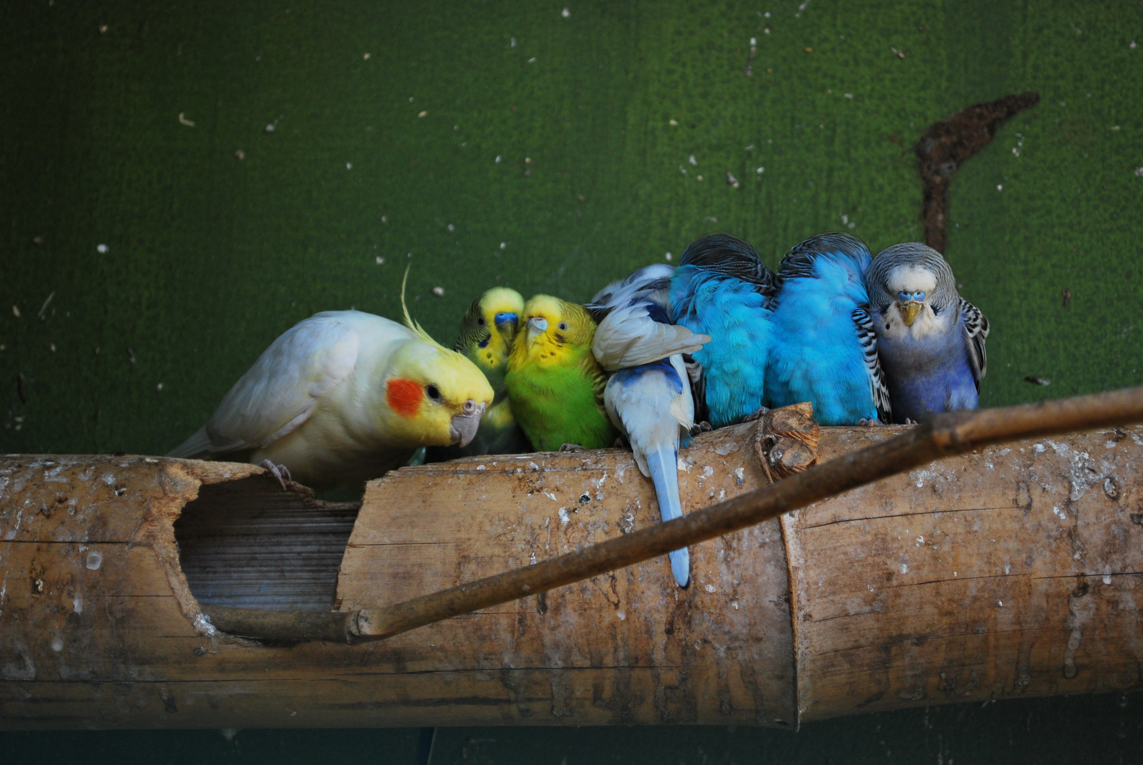 Budgerigars, Melopsittacus undulatus and Cockatiel, Nymphicus hollandicus in an aviary at Bandipur National Park, India.